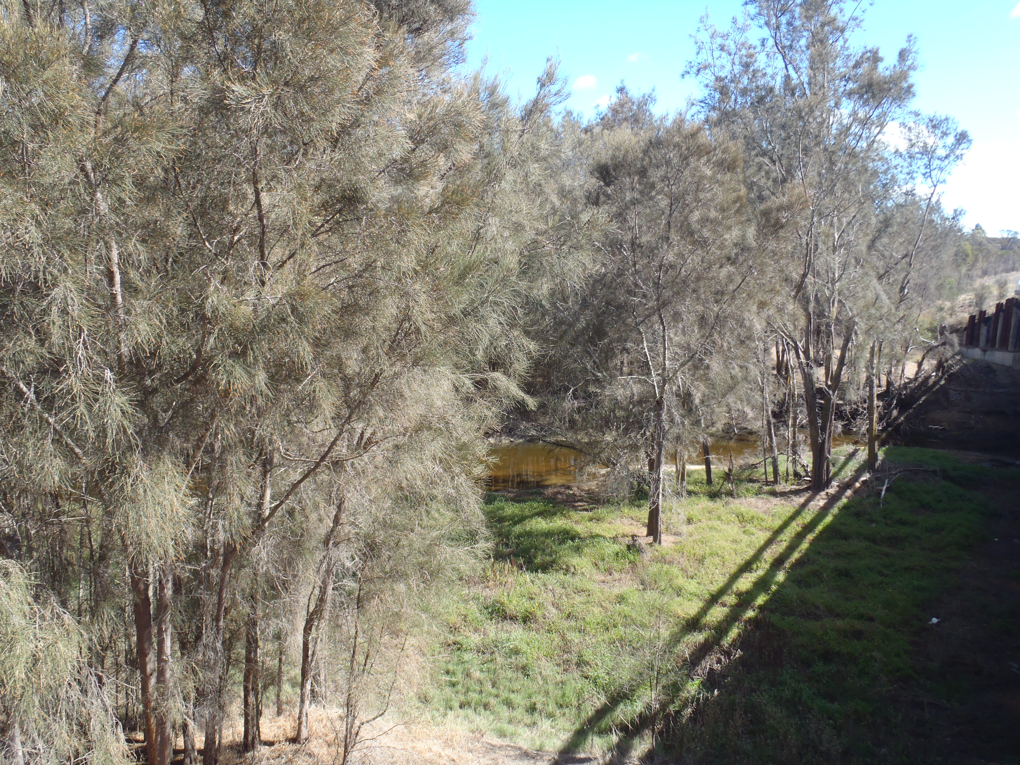 Arthur River at Albany Highway